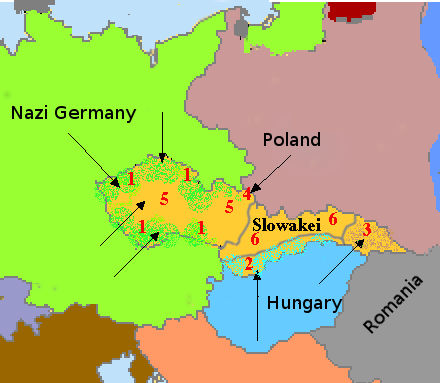 1. Germany occupies the Sudetenland (autumn 1938) 2. Hungary occupies border areas (southern third of Slovakia and southern Carpathian Ruthenia) with Hungarian majorities 3. Carpatho-Ukraine received autonomy (autumn 1938). 4. Cession to Poland areas Cieszyn Silesia with Polish majority (1st of October 1938). 5. In March 1939 the remaining Czech territories becomes the German Protectorate of Bohemia and Moravia. 6. From remainder Czechoslovakia Slovakia is created, becoming a German satellite.